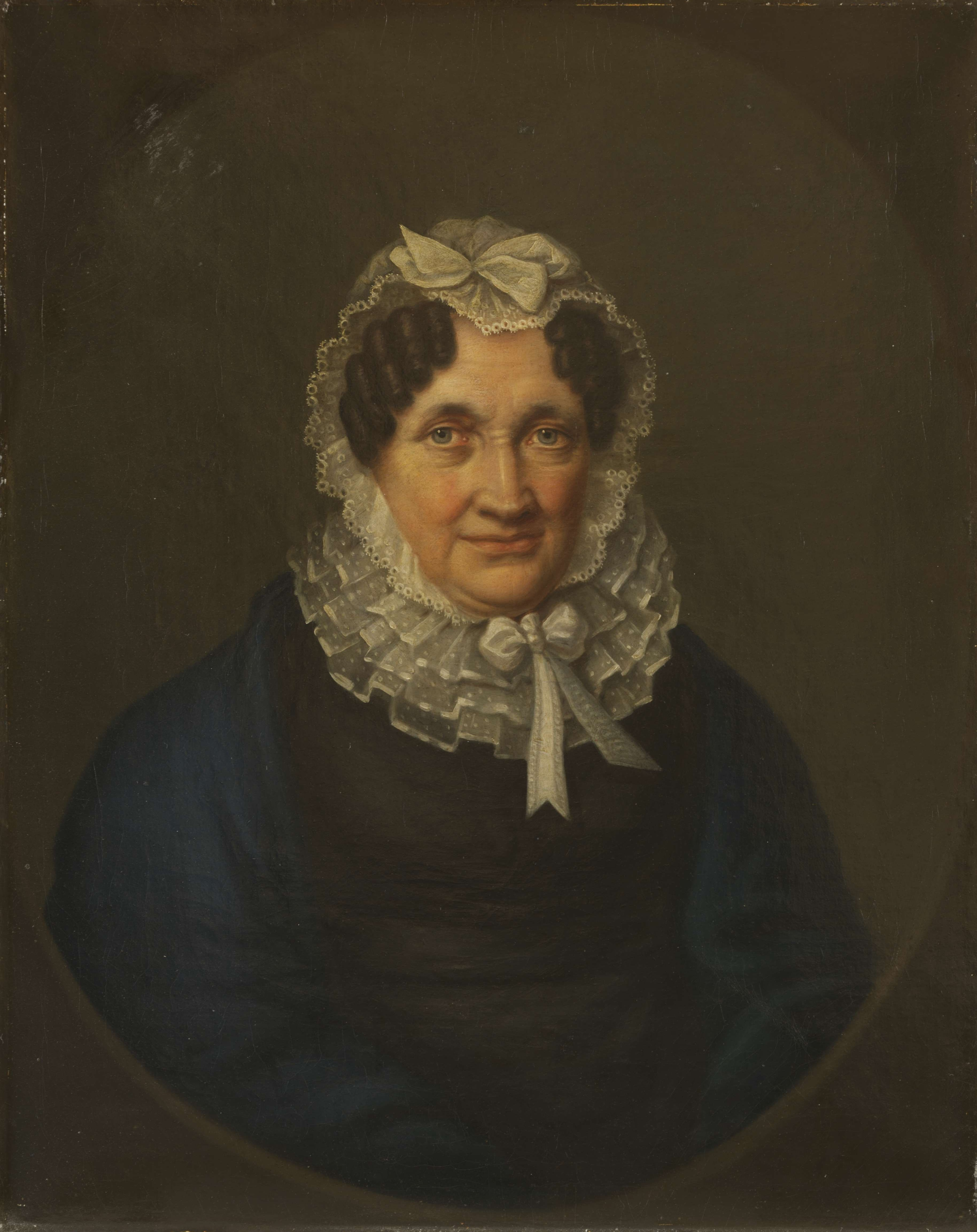 Christine Wilhelmine, Gräfin von Waldeck-Bergheim